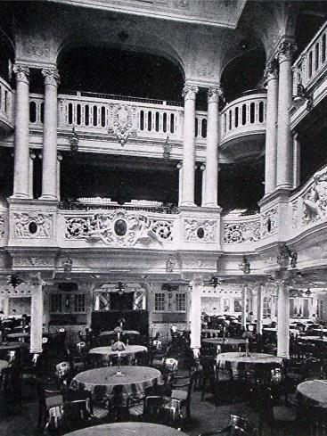 First Class Dining Room of the SS Kronprinzessin Cecilie